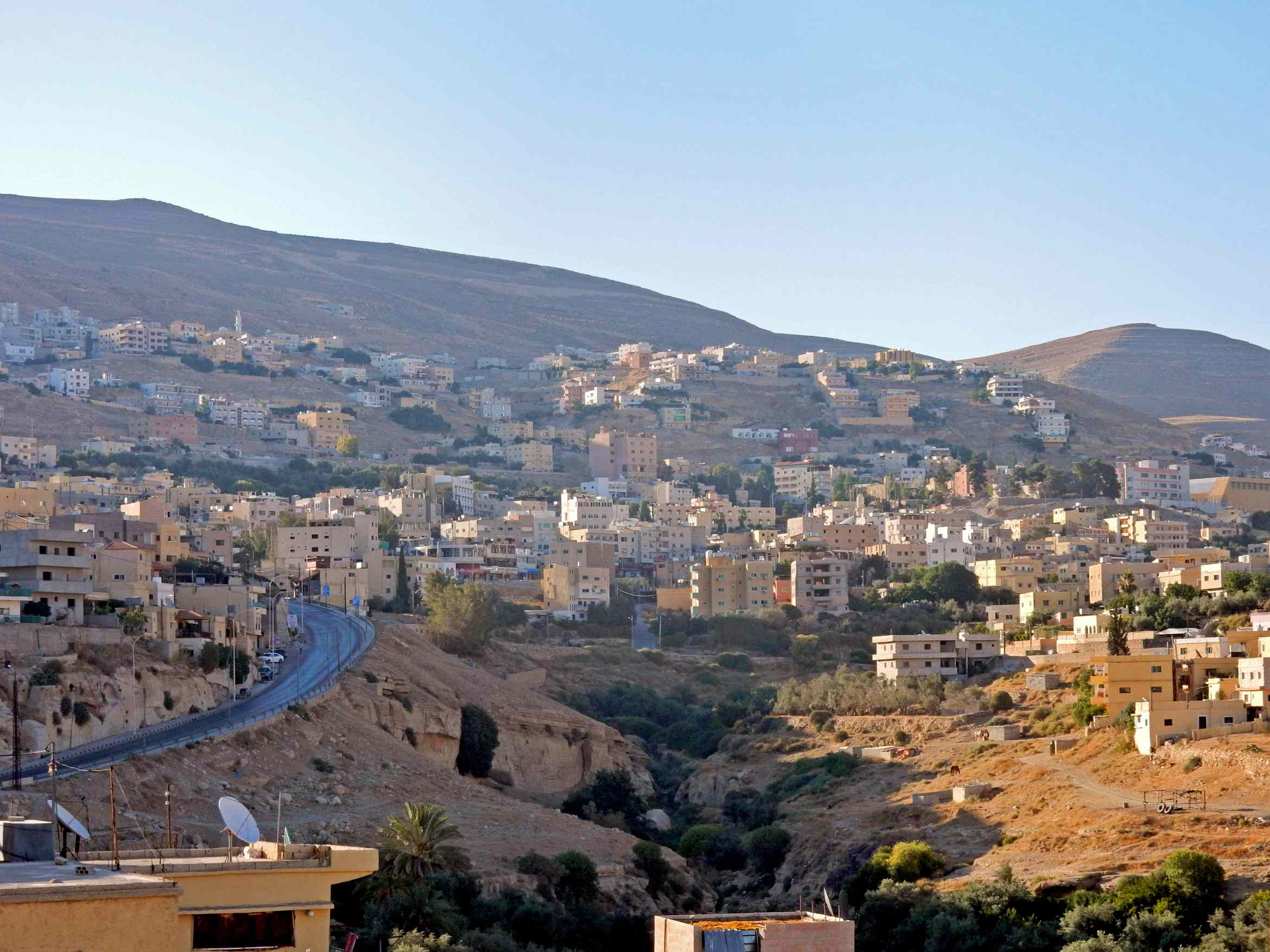 JORDANIEN | JORDAN | Petra | Wadi Musa You're welcome to use this picture free of charge, as long as you follow the license terms. As a matter of courtesy a link (dofollow links are welcome!) to is much appreciated. Thank you! ————————–—–—–—–—–—–—–—–—–—–—–—–—–—–—– Du kannst dieses Bild gemäß der Lizenzbestimmungen unentgeltlich nutzen. Über eine Verlinkung (dofollow am liebsten) auf freuen wir uns. Danke!